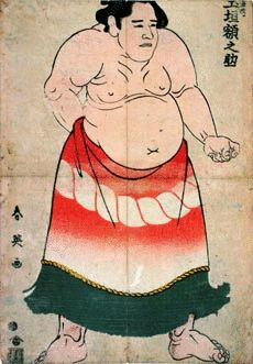 photographic reproduction of color woodprint by Shunei Katsukawa (1762-1819)